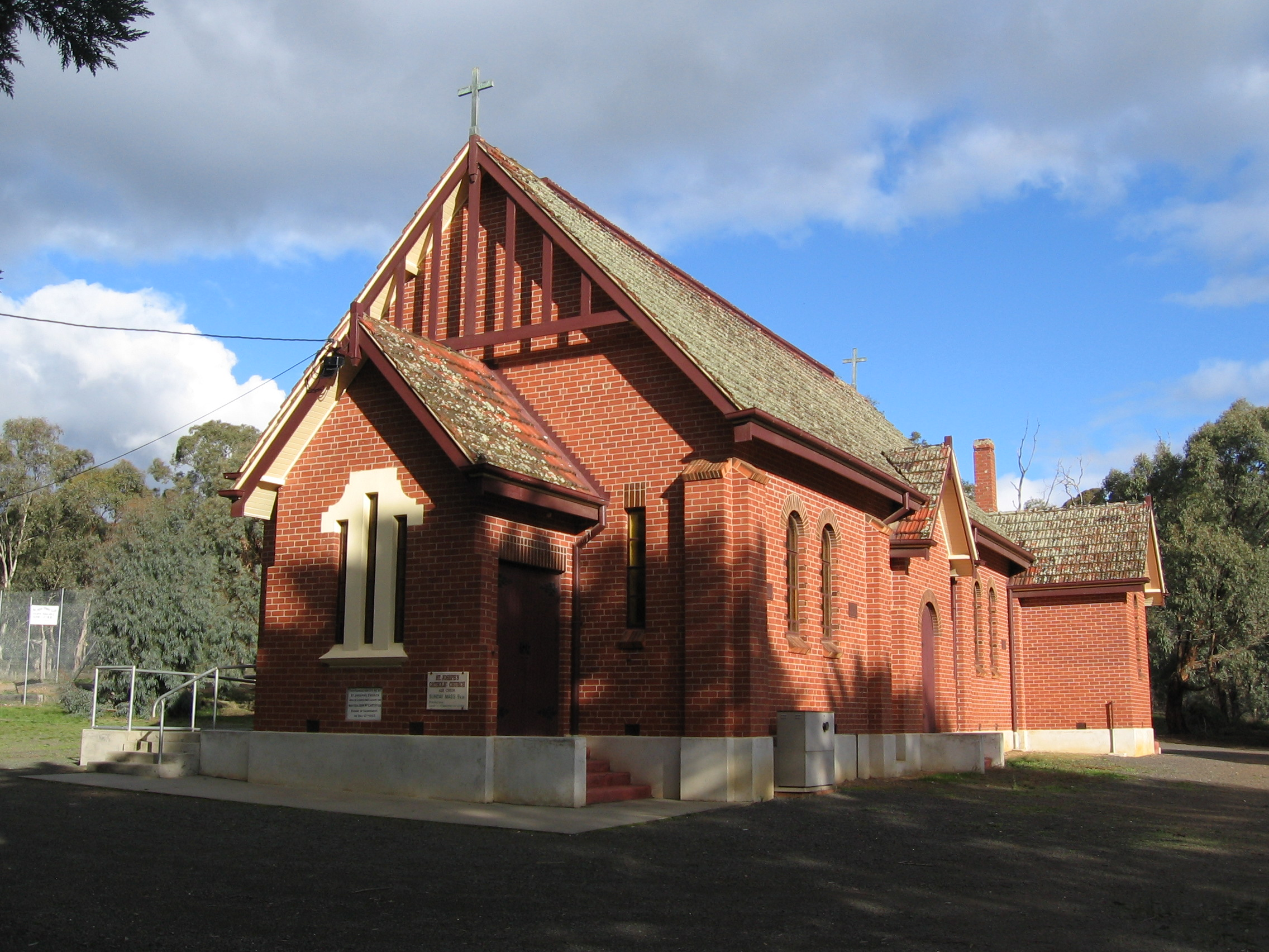 St Joseph's Roman Catholic church in Axe Creek, Victoria